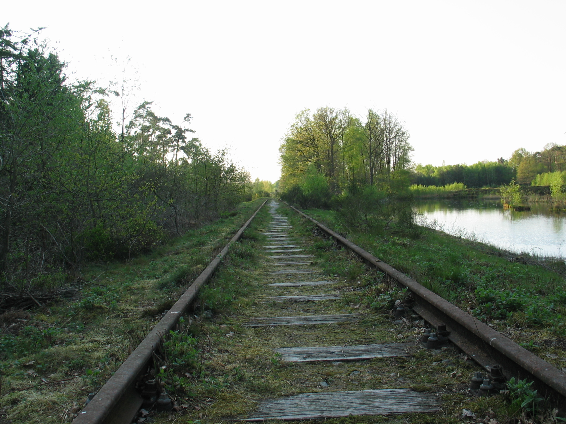 The old railway between Winterswijk (netherlands) and Borken (germany) is now a protected wildlife area